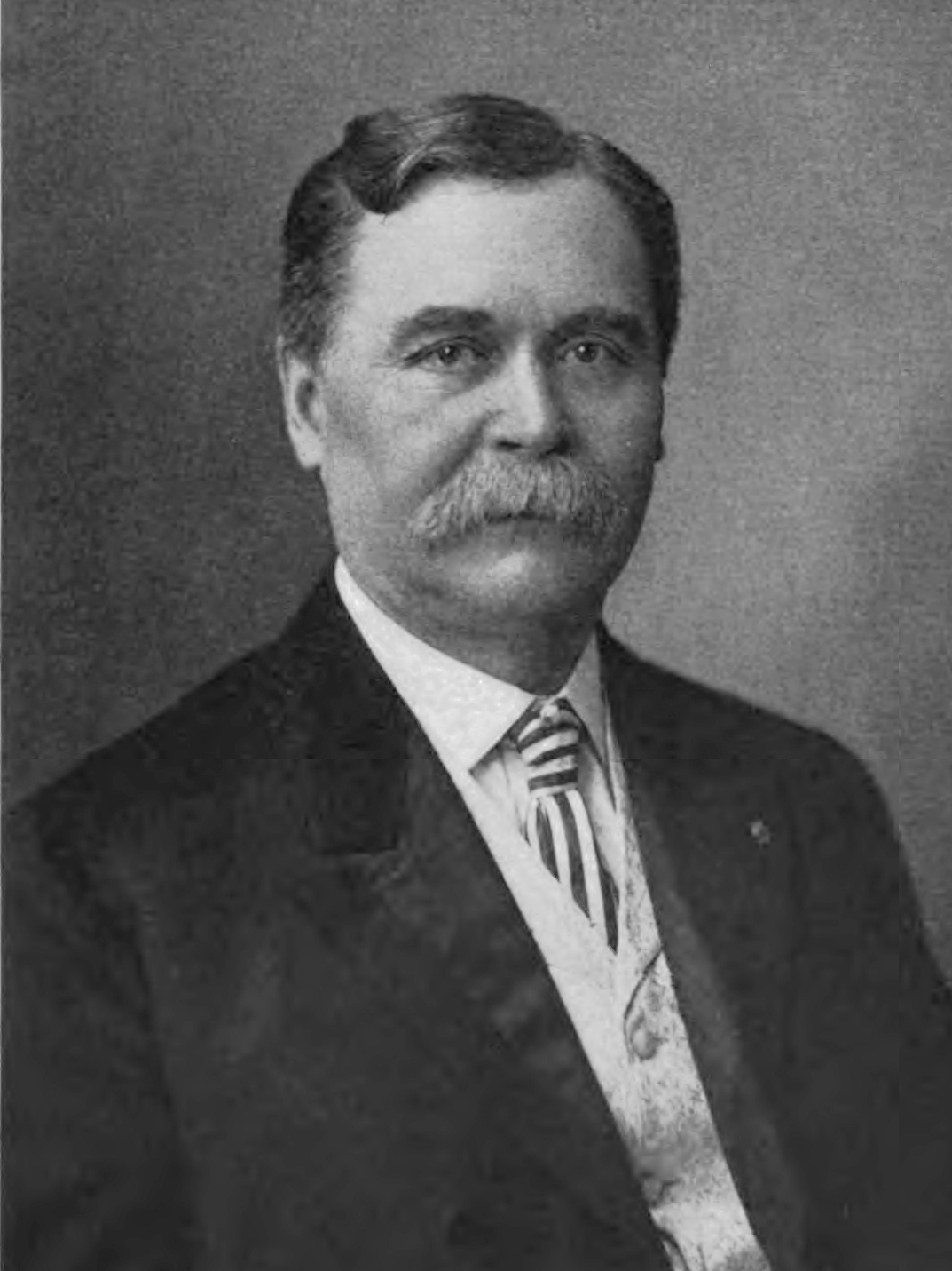 Elbert L. Lampson was a politician from Ohio.